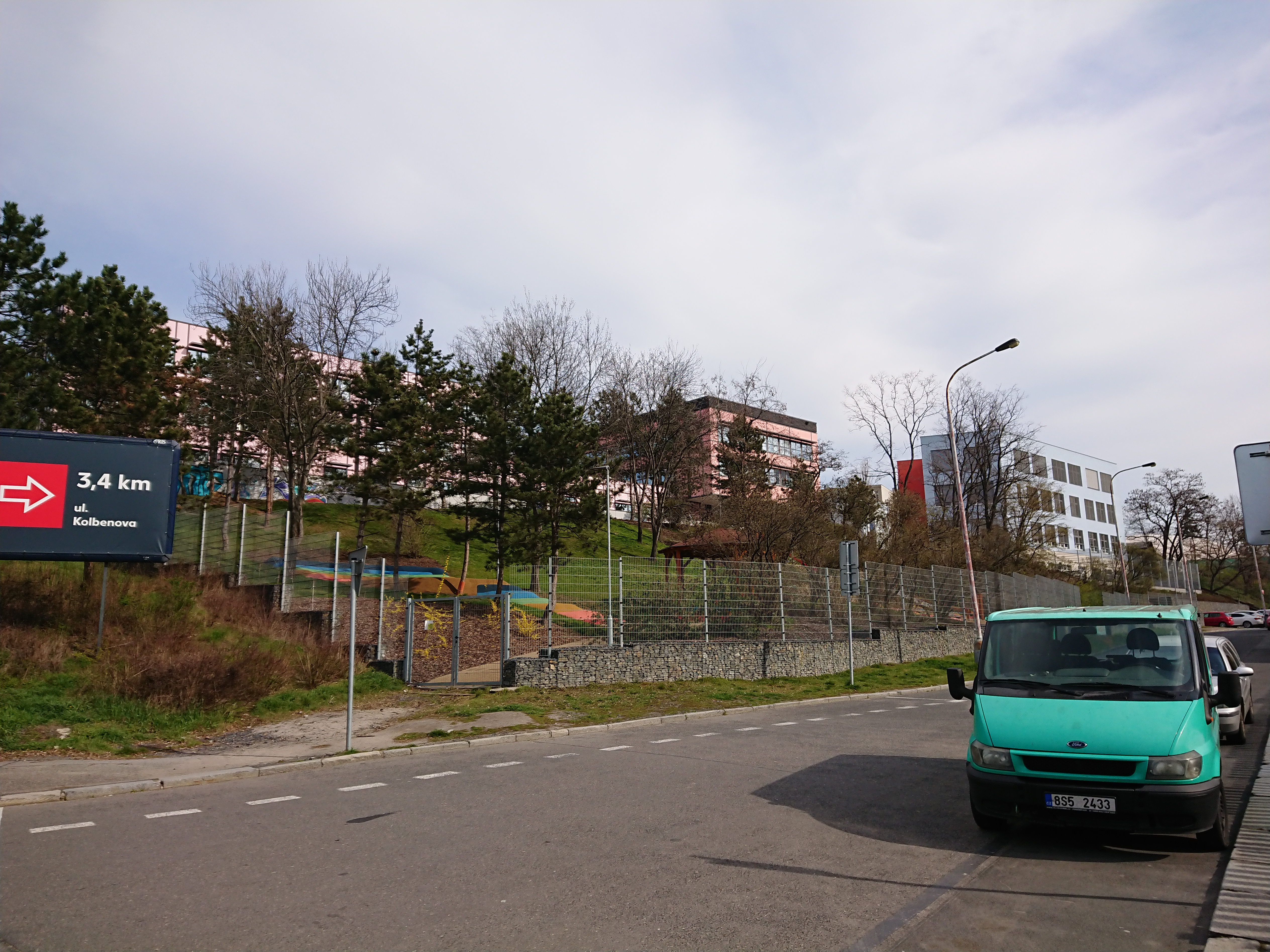 View of Bumbálek Hill, Vysočany, Prague, Czech Republic from the intersection of Freyova and U Vysočanského Pivovaru street